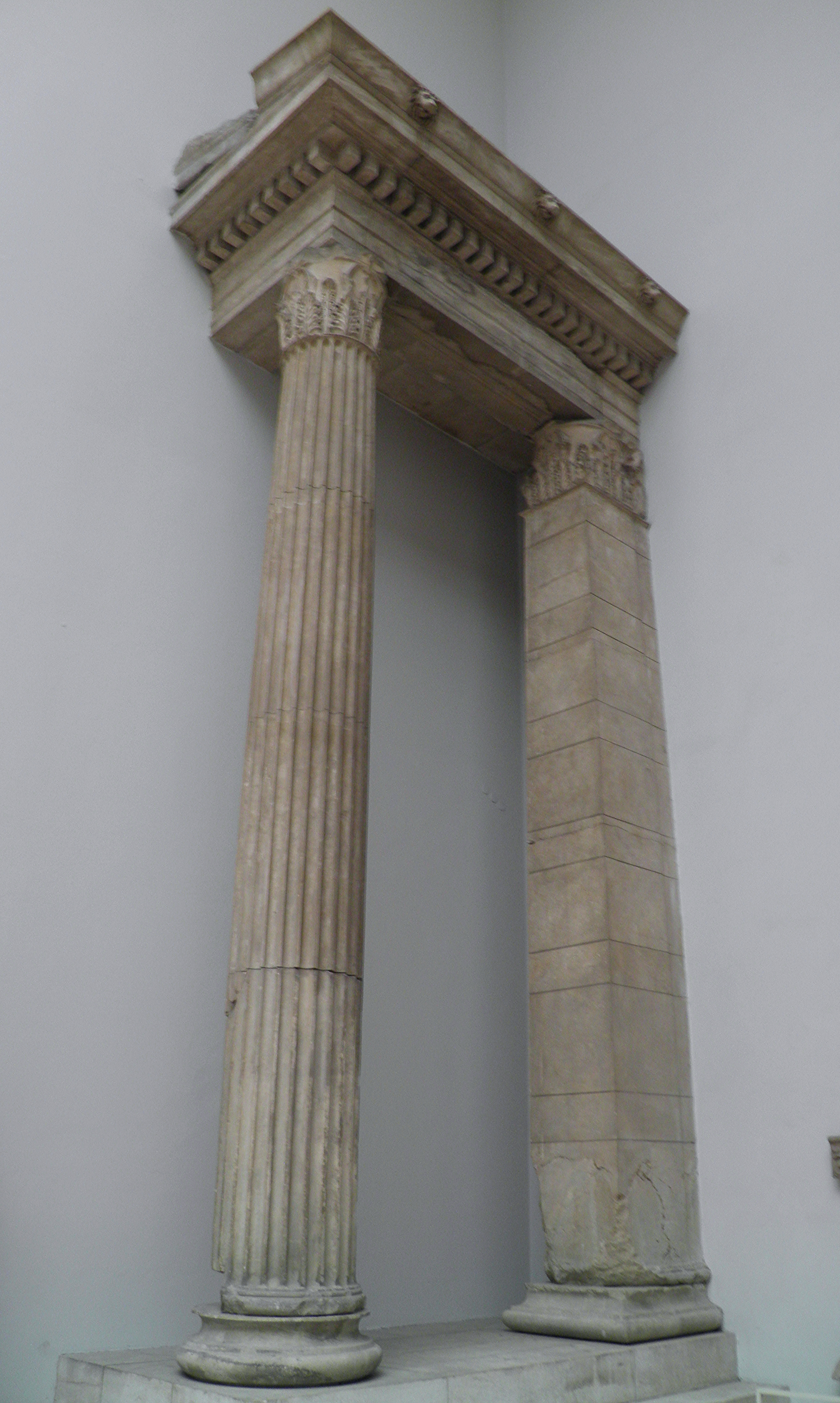 Corner of the propylon of the City Hall at Miletus, reconstruction with original fragments, 175 - 164 BC, Pergamon Museum Berlin